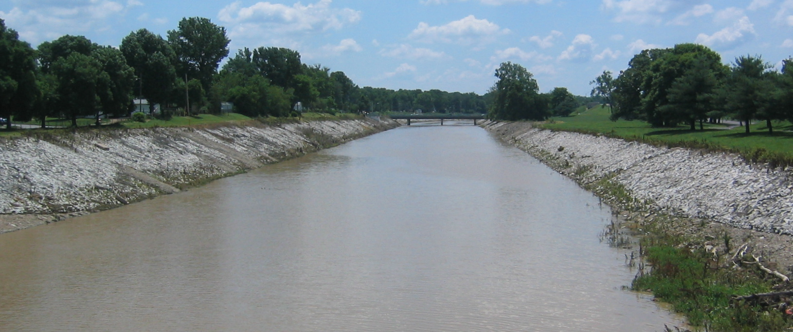 A view of the River des Peres in St. Louis from Lansdowne Ave. looking south.